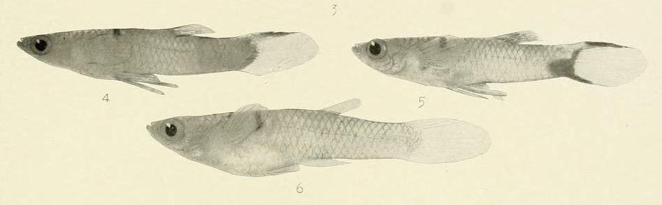 Poecilia bifurca